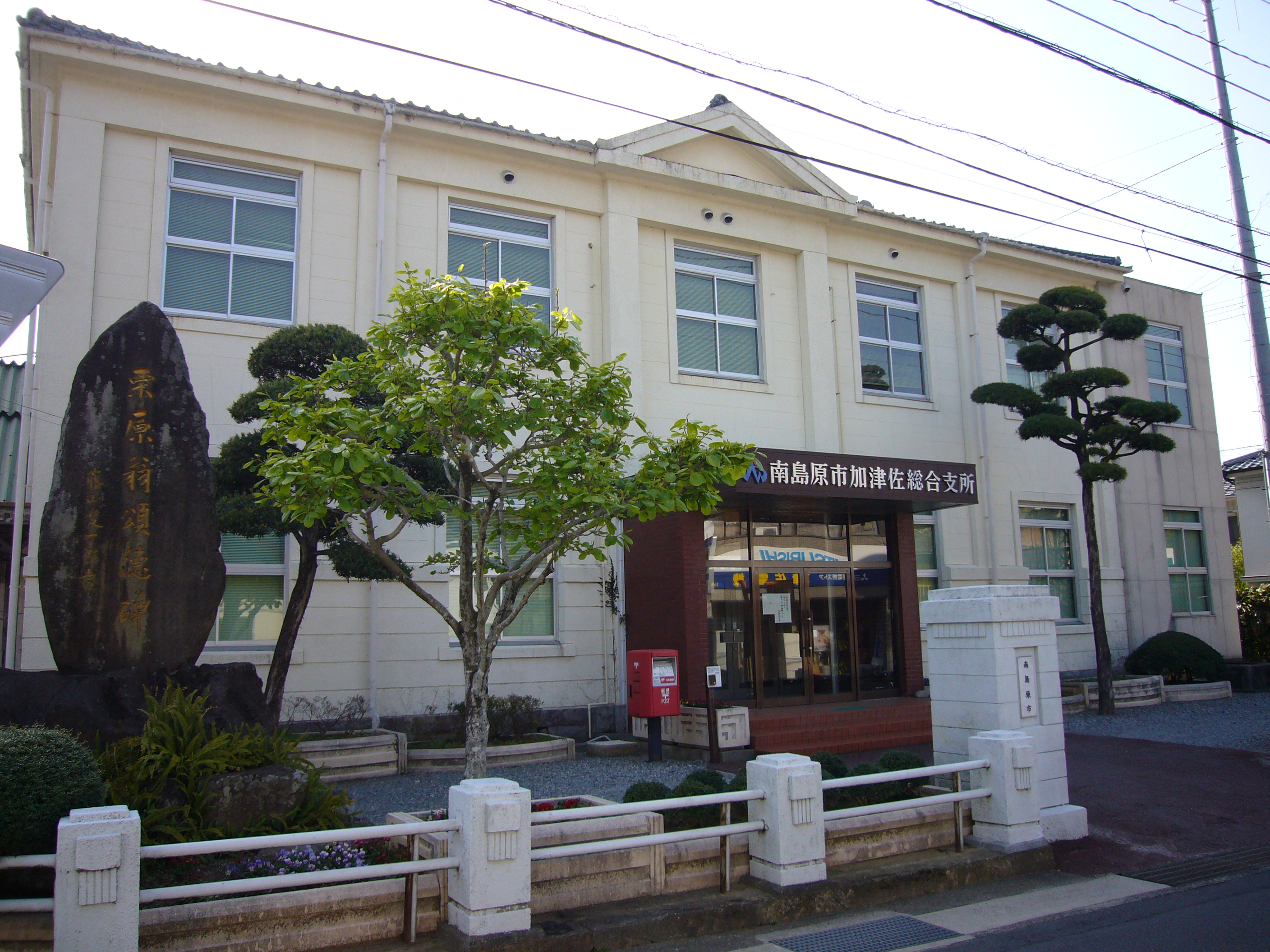 Photograph of Kazusa branch of Minamishimabara city office, Minamishimabara, Nagasaki, Japan.